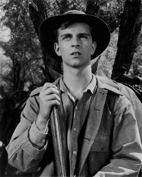 Publicity photo of American actor, Tommy Rettig promoting his guest-starring role on the November 14, 1962 episode of the syndicated television series, Death Valley Days entitled "Davy's Friend".